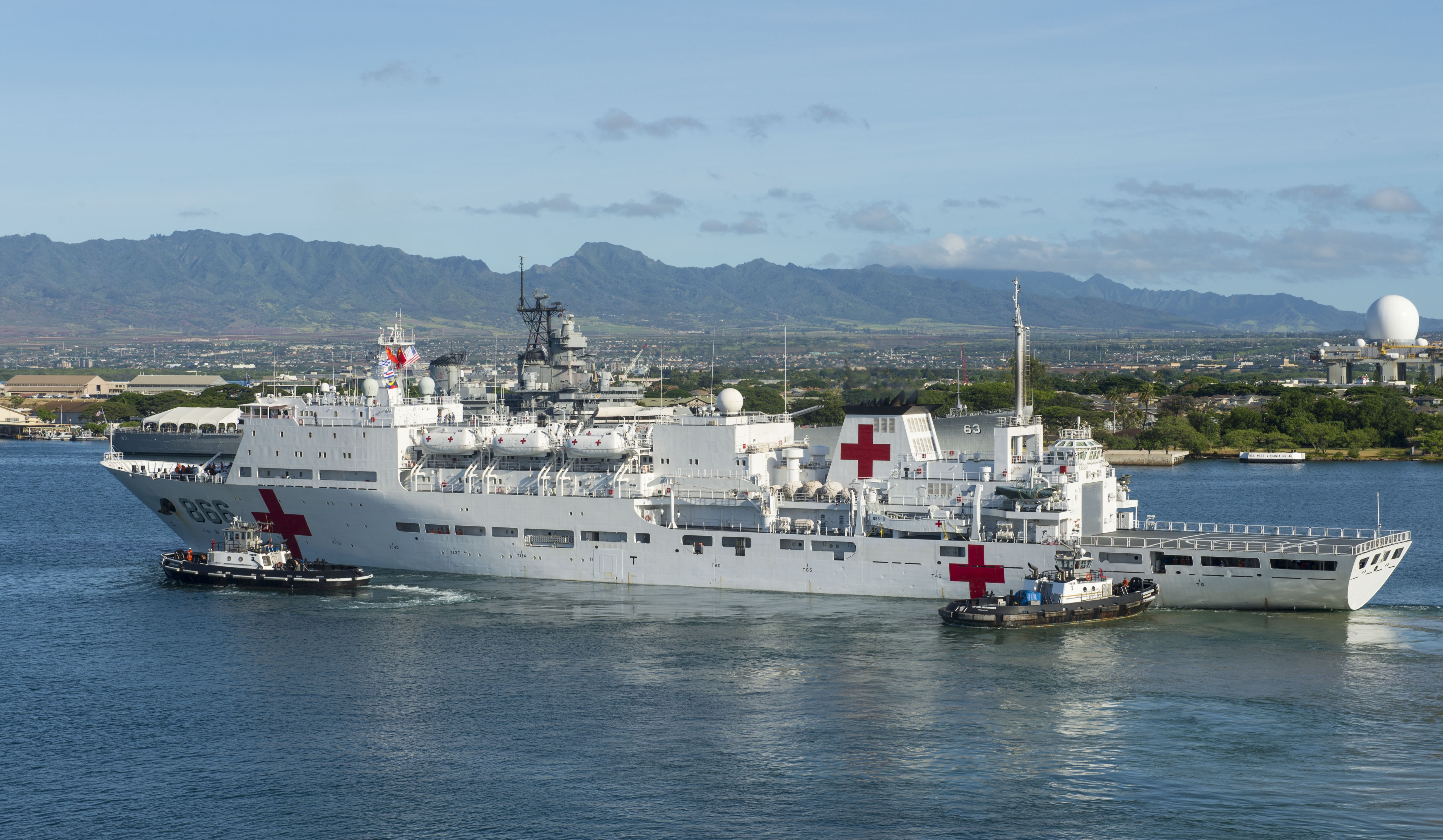 People's Republic of China, People's Liberation Army (Navy) hospital ship Peace Ark (TA-H 866) gets underway from Joint Base Pearl Harbor-Hickam during Rim of the Pacific (RIMPAC) Exercise 2014. Twenty-two nations, 49 ships, six submarines, more than 200 aircraft and 25,000 personnel are participating in RIMPAC exercise from June 26 to Aug. 1, in and around the California coast and Hawaiian Islands. The world's largest international maritime exercise, RIMPAC provides a unique training opportunity that helps participants foster and sustain the cooperative relationships that are critical to ensuring the safety of sea lanes and security on the world's oceans. RIMPAC 2014 is the 24th exercise in the series that began in 1971. (U.S. Navy photo by Mass Communication Specialist 3rd Class Justin W. Galvin/Released)